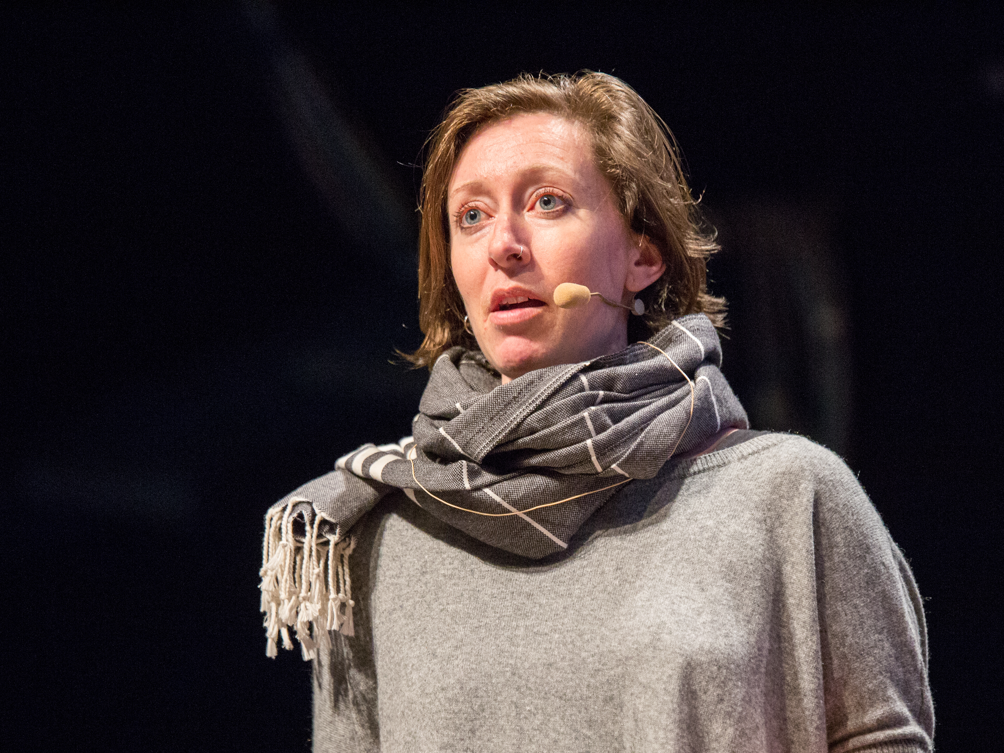 Alison Killing at the See-Conference 2017 in the Schlachthof Wiesbaden